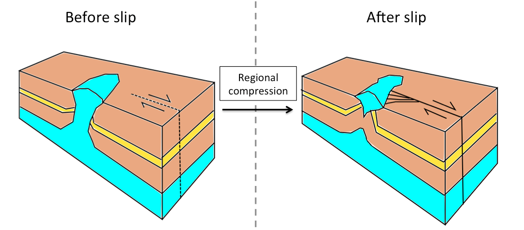 before and after slip(1)